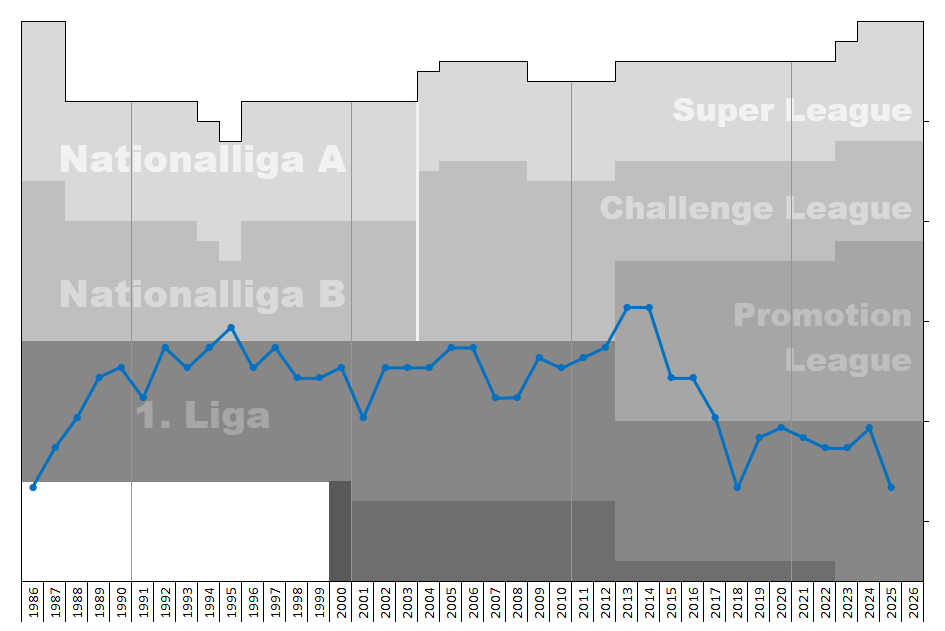 Chart of end-season table positions for FC Tuggen in the Swiss football league system. Data source: RSSSF